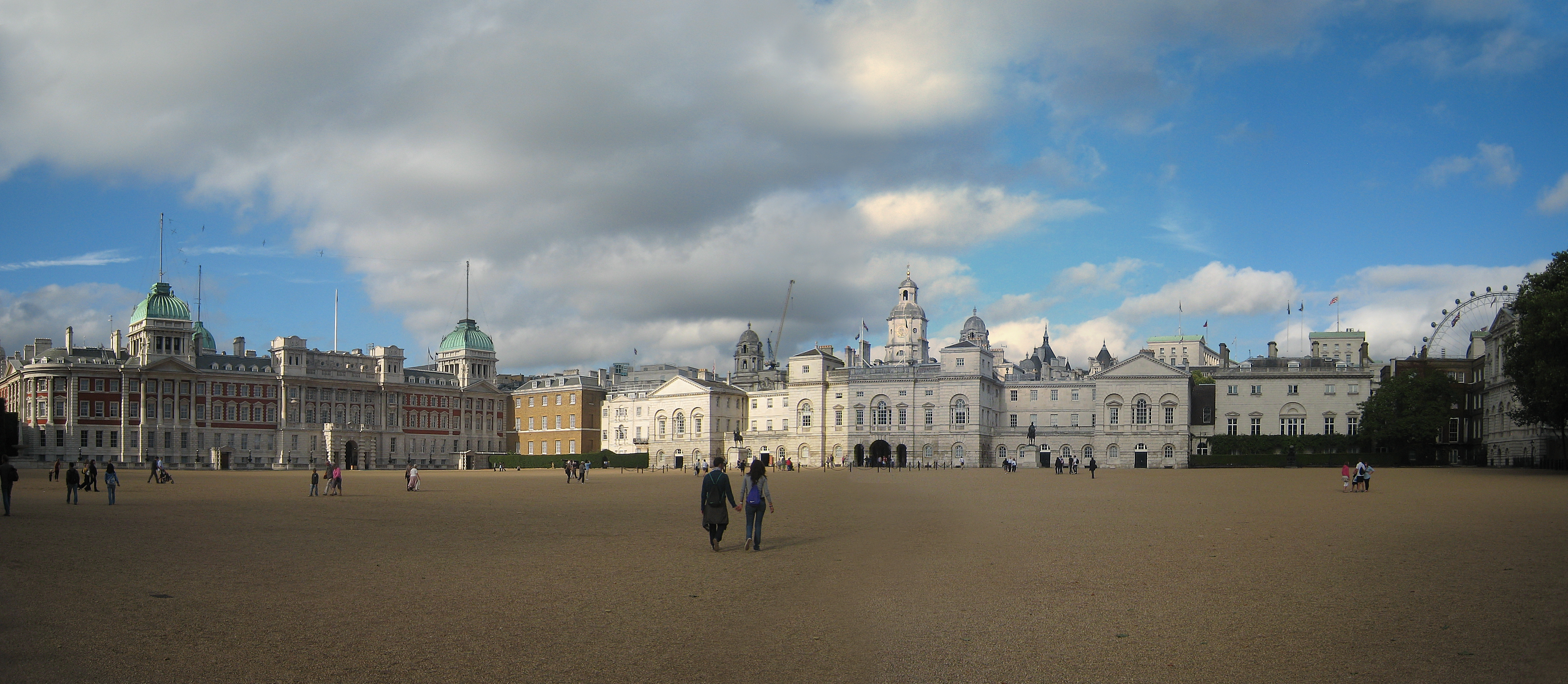 Horse Guards Parade in London/UK